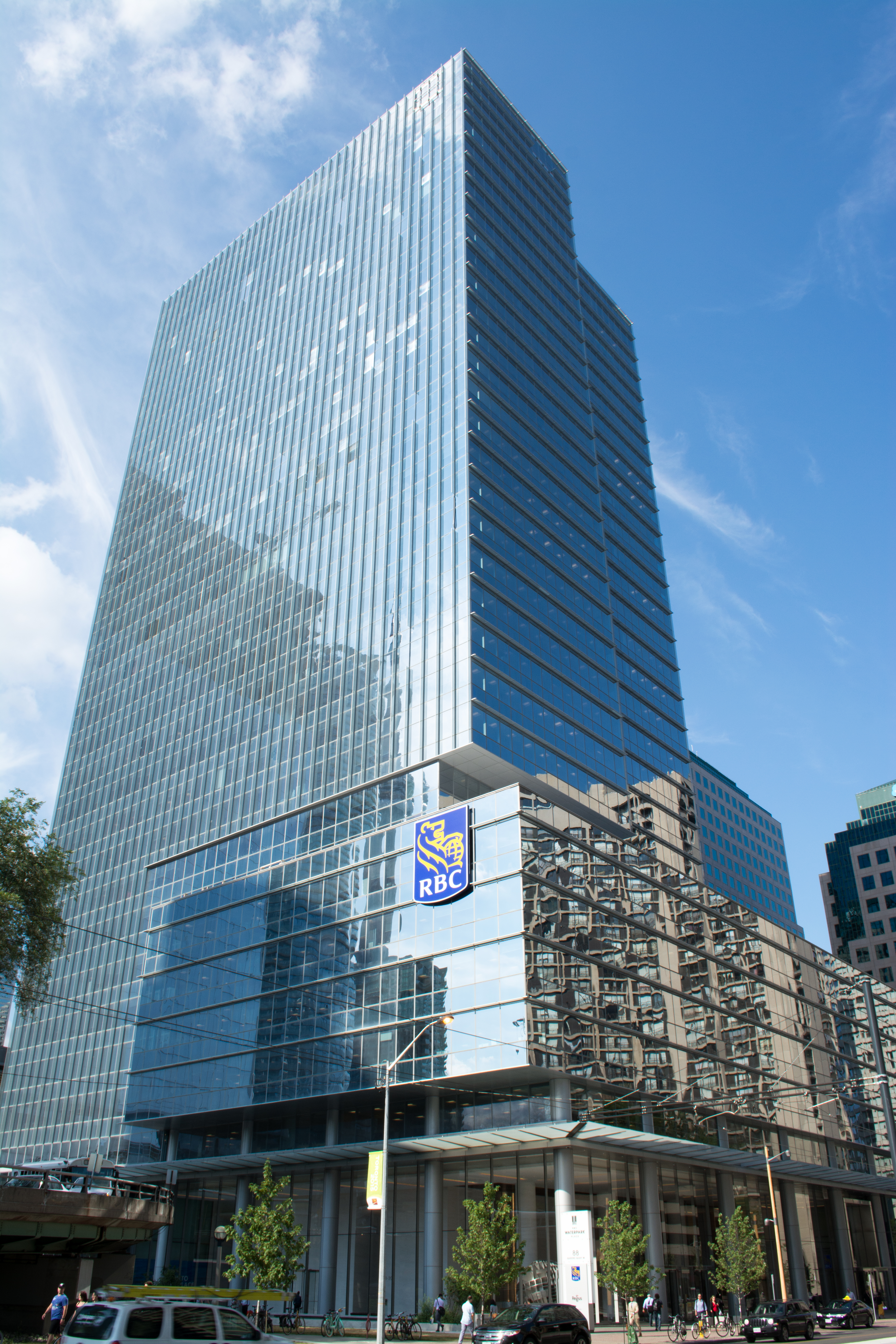 RBC Waterpark Place